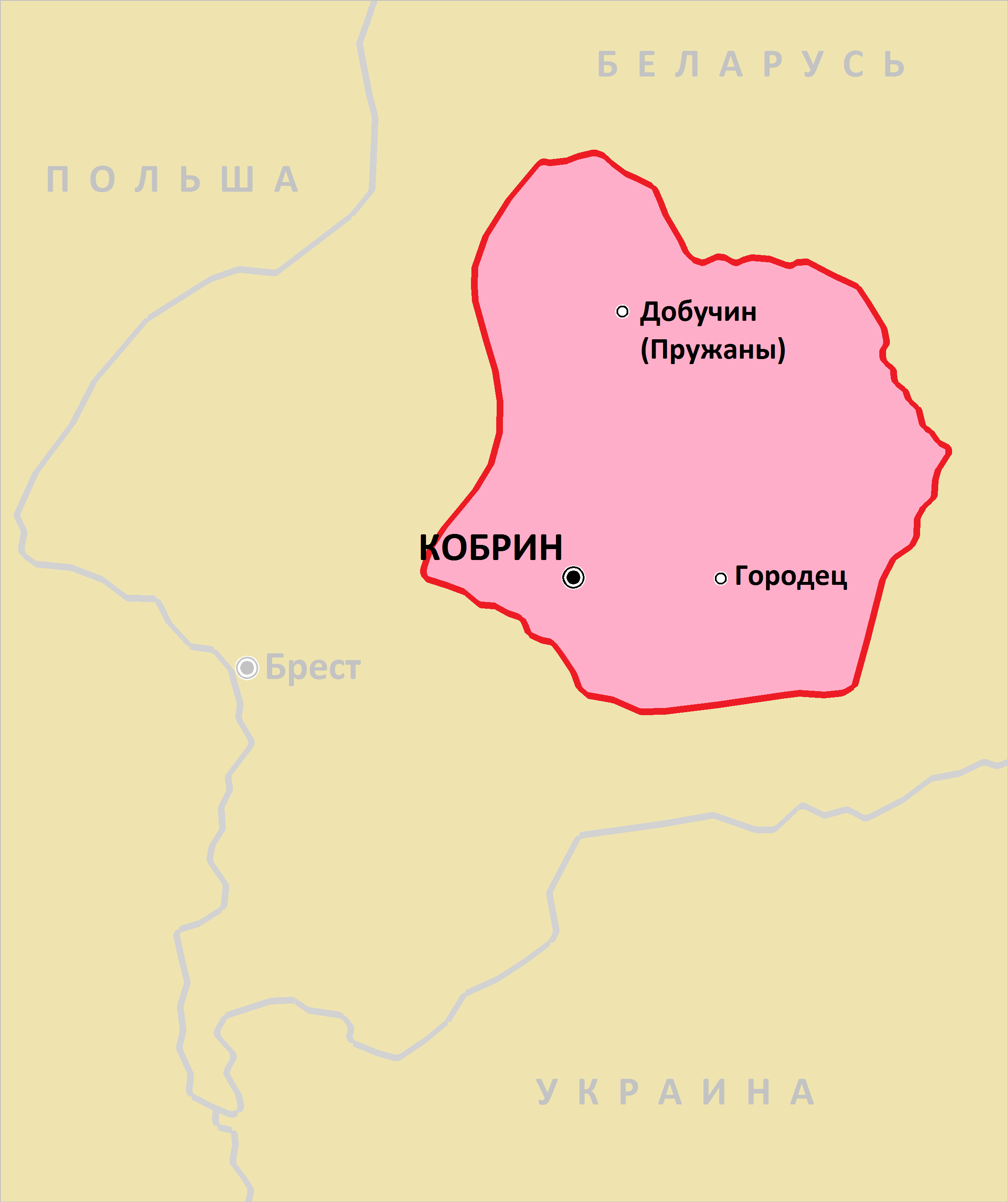 Principality of Kobrin, XVI century (in pink), modern state boundaries in gray